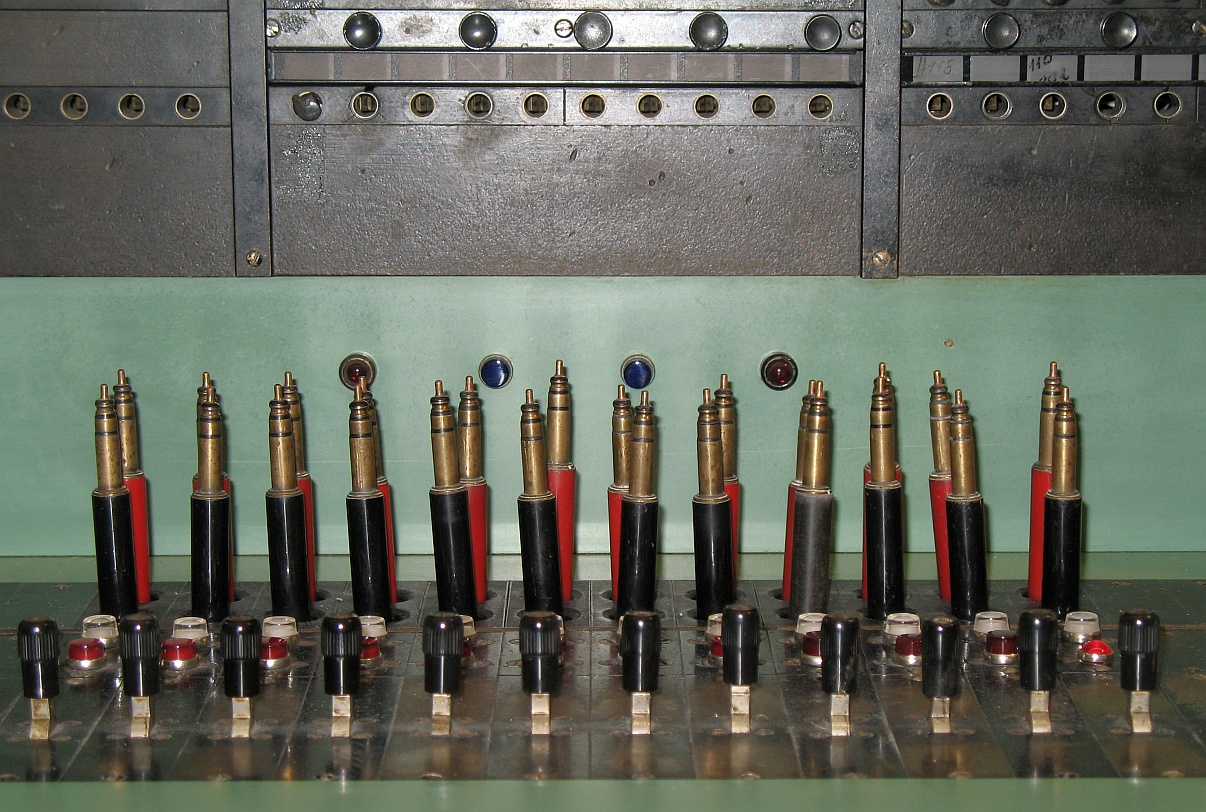 Switchboard of a manual exchange in the Telecommunications Museum in Aachen